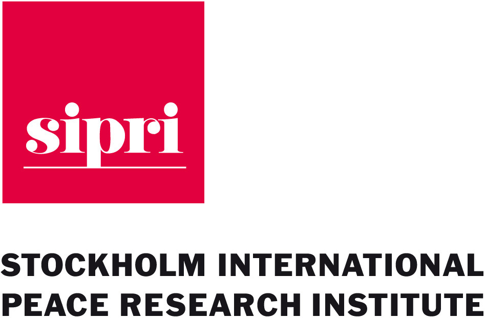 SIPRI logo